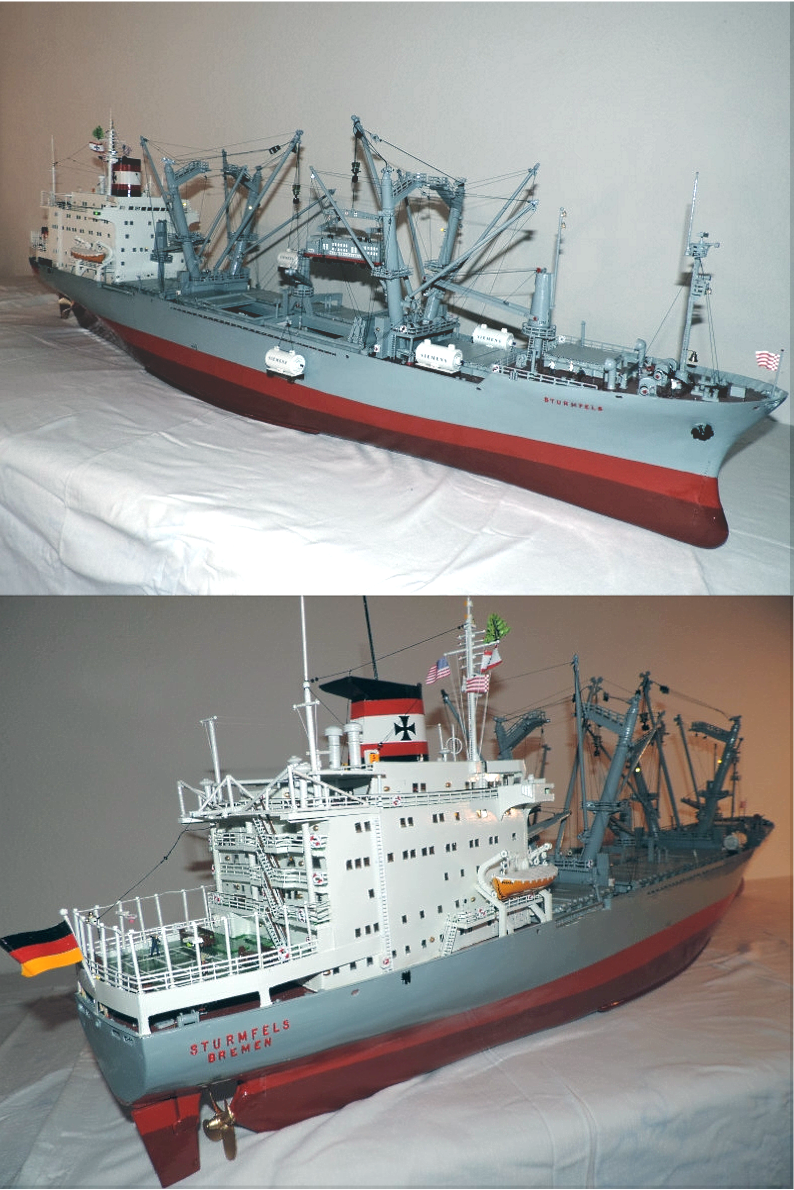 Model of the Bremer DDG-training and heavy Lift ship Sturmfels